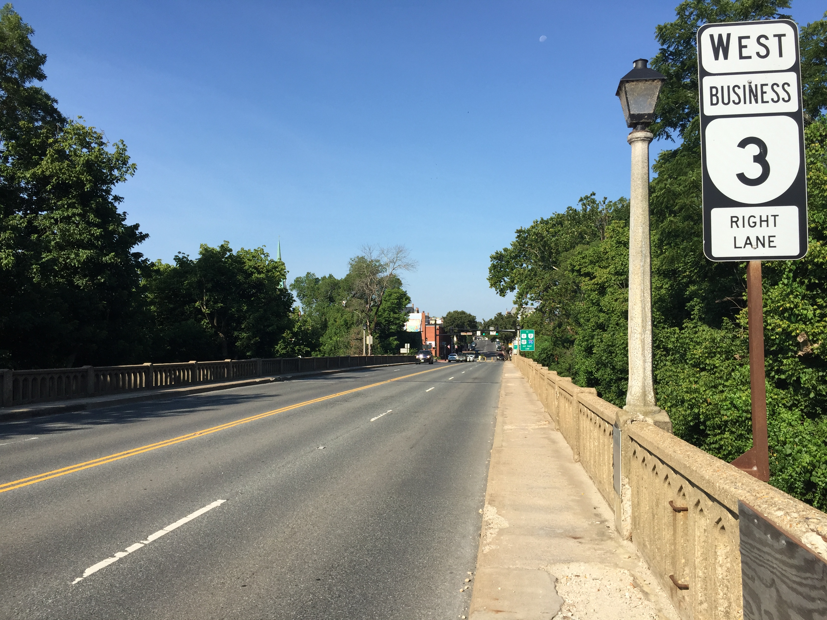 View west along Virginia State Route 3 Business (William Street/Kings Highway Bridge) crossing the Rappahannock River from Chatham Heights, Stafford County, Virginia to Fredericksburg, Virginia